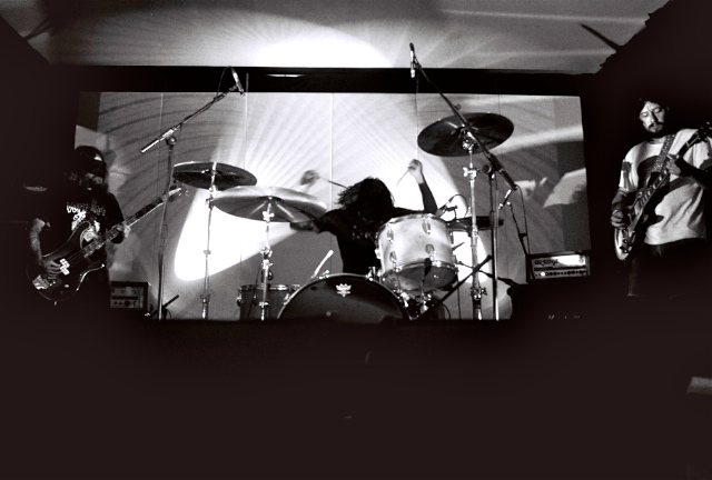 Earthless at Supersonic